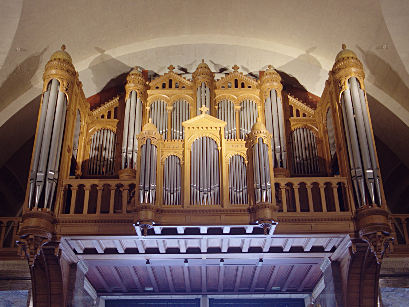 Rosary Basilica - Lourdes